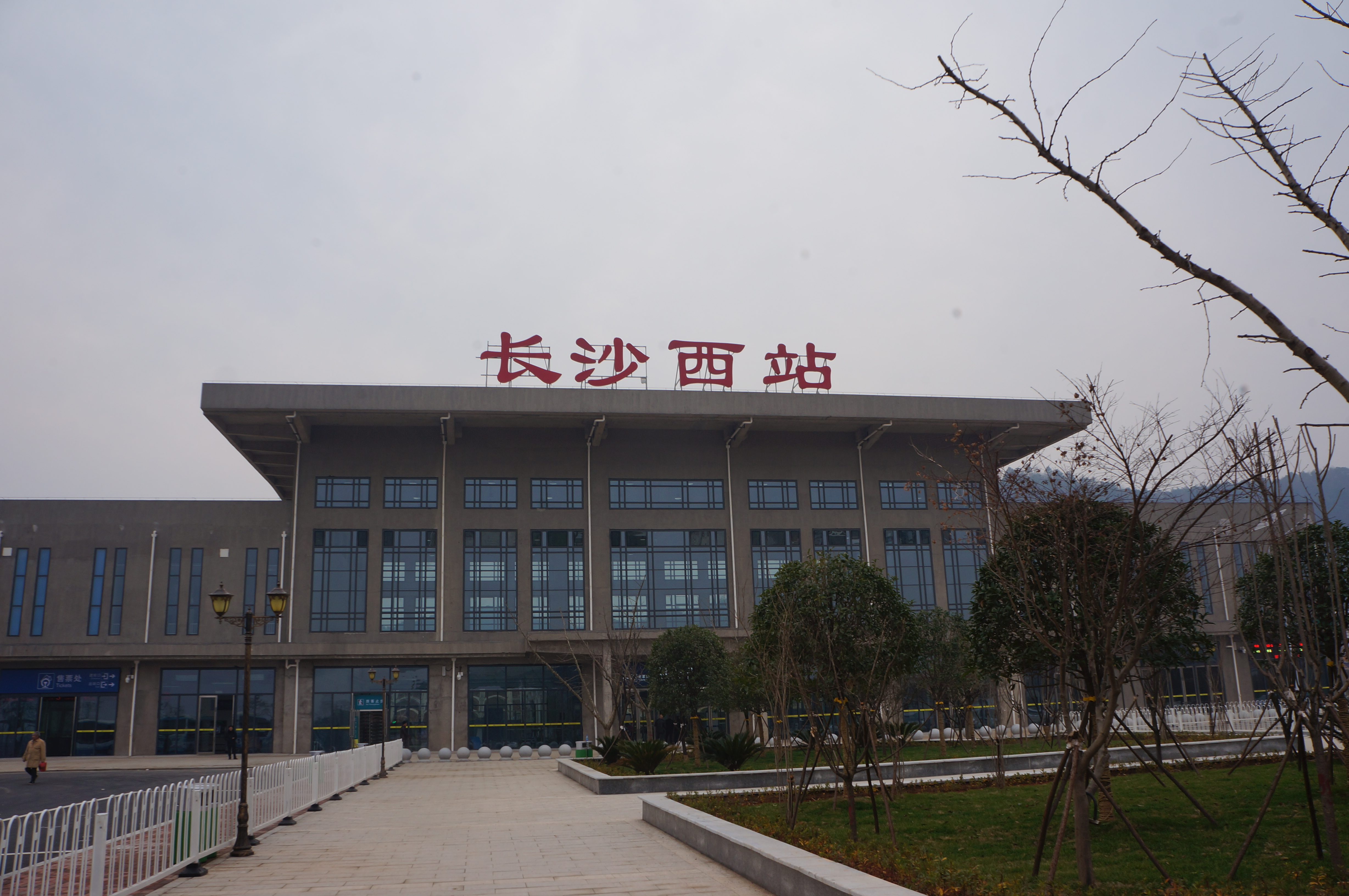 201712 Changshaxi (Bauhaus?) Railway Station